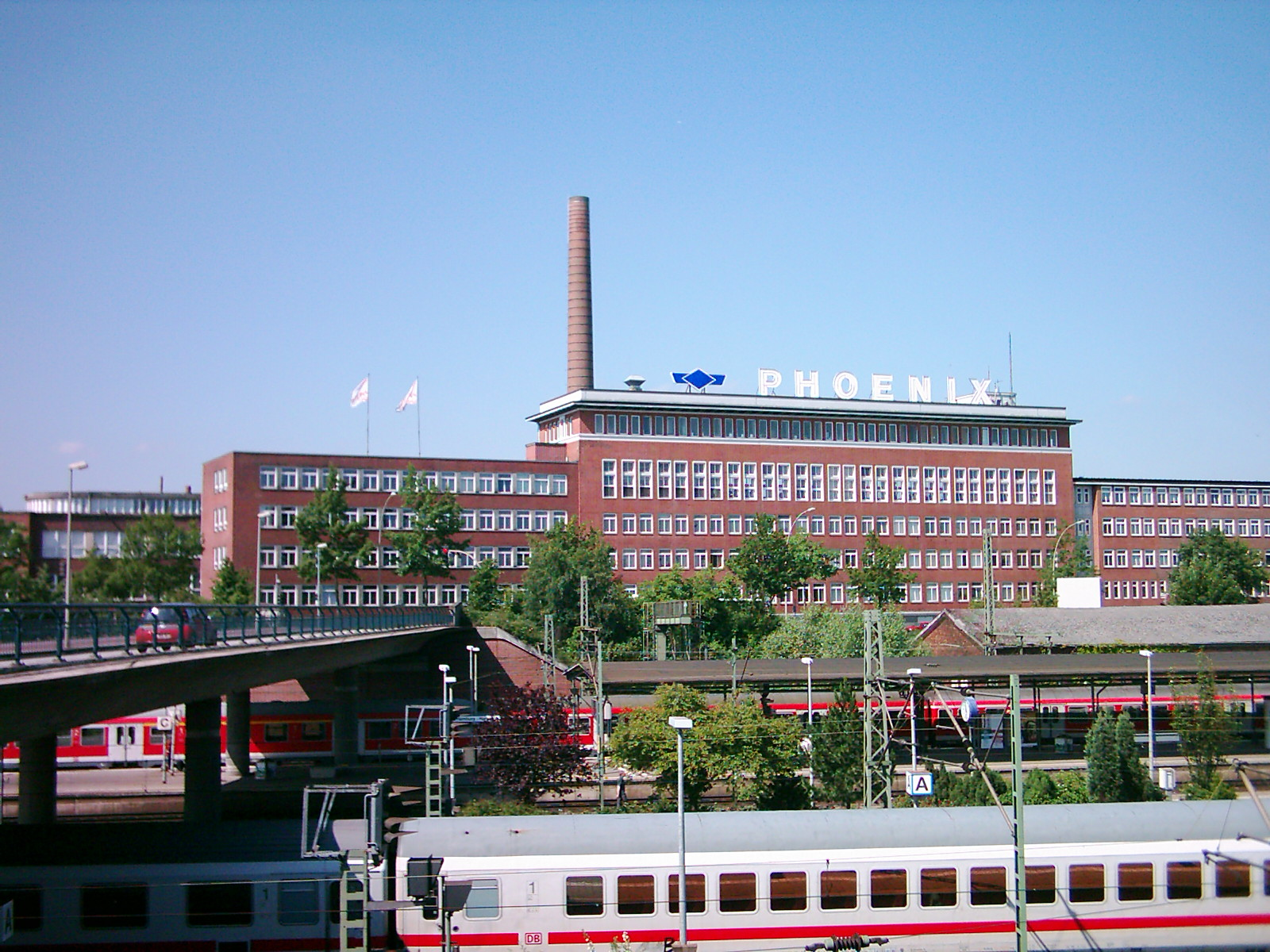 Phoenix AG in Hamburg, Germany.